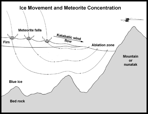 The Antarctic meteorites have been concentrated in certain location, but the mechanism of concentration is not completely understood. A leading hypothesis is that the meteorites fell on snowfields where ice thickness increases, flowed toward the edge of the Antarctic Continent, and became exposed where the iceflow is impeded by obstacles and where the ice is ablated. The wind continually ablates the ice surface in the areas of meteorite concentration, removing ice by sublimation and mechanical abrasion. In order to measure the amount of ablation, a series of stakes has been emplaced and accurately surveyed with respect to a base station on rock outcrops. Ablation rates have been as high as 10 centimeters per year. (From File:Icemvmt.png)